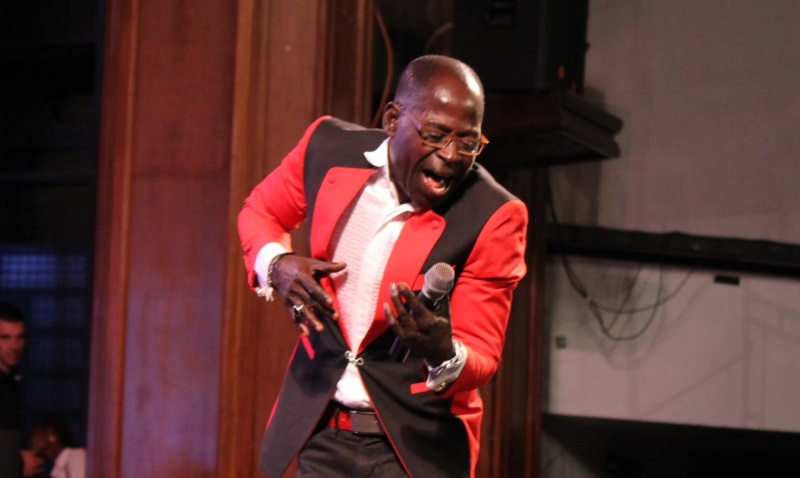 Amakye Dede in one of his performances